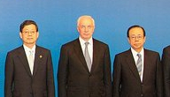 Leaders of the Boao Forum for Asia pose for the photograph at the "Boao Forum for Asia Annual Conference 2011" in Beijing Municipality on April 15, 2011.